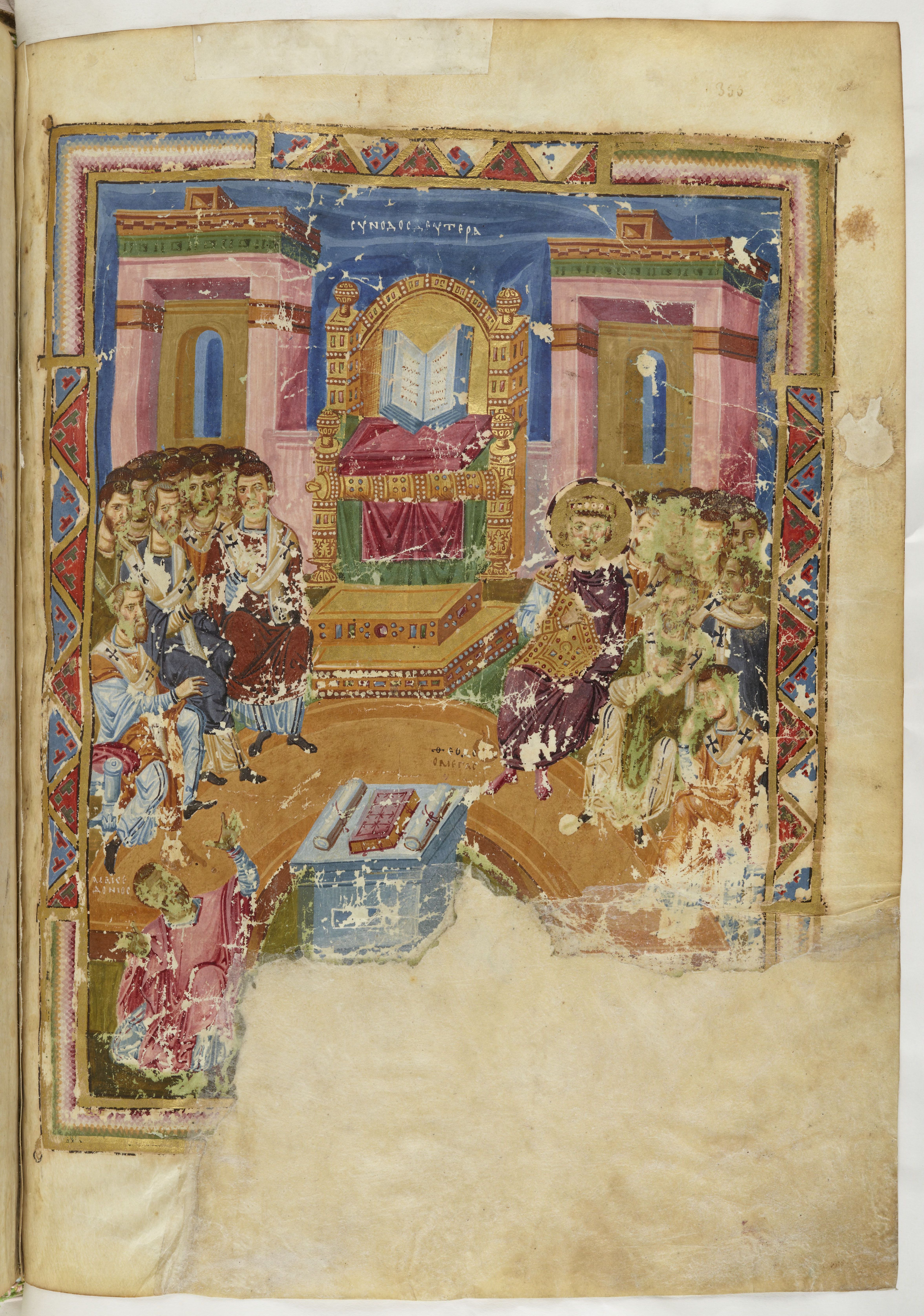 Manuscript BnF Grec 510 (Homilies of St. Gregory of Nazianzus), folio 355 recto. Miniature of the First Council of Constantinople (AD 381). The emperor Theodosius I and a crowd of bishops seated on a semicircular bench, on either side of an enthroned Gospel Book. An heretic, Macedonius, occupies the lower left corner of the miniature.